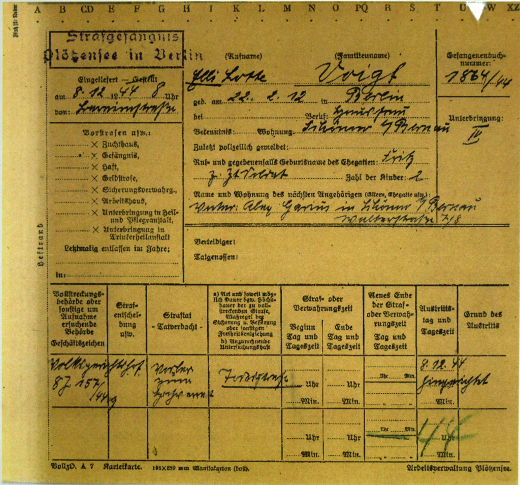 Index card to Elli Voigt of the Prison Plötzensee in Berlin